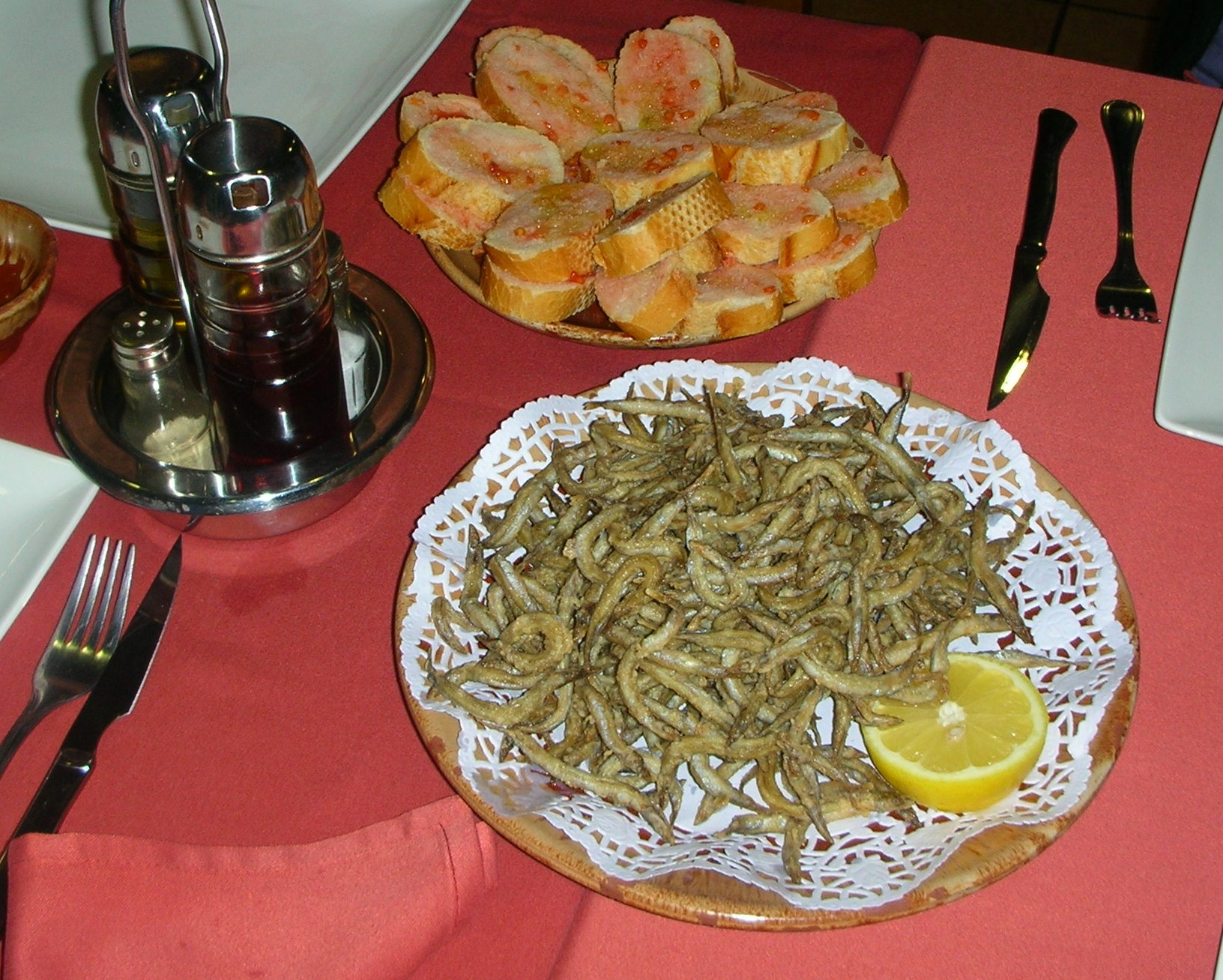 Fried sonsos (Gymnammodytes cicerellus) with Pa amb tomàquet